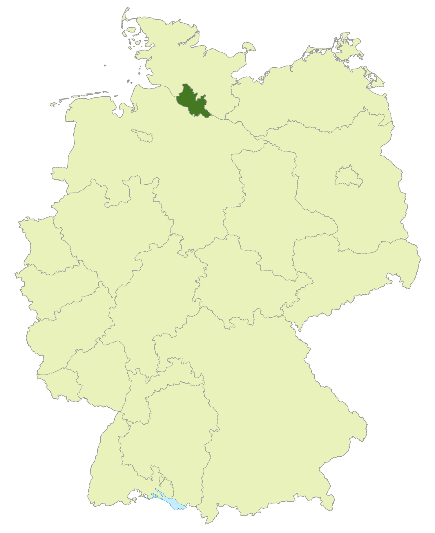 Map of regional soccer association Hamburg, Germany